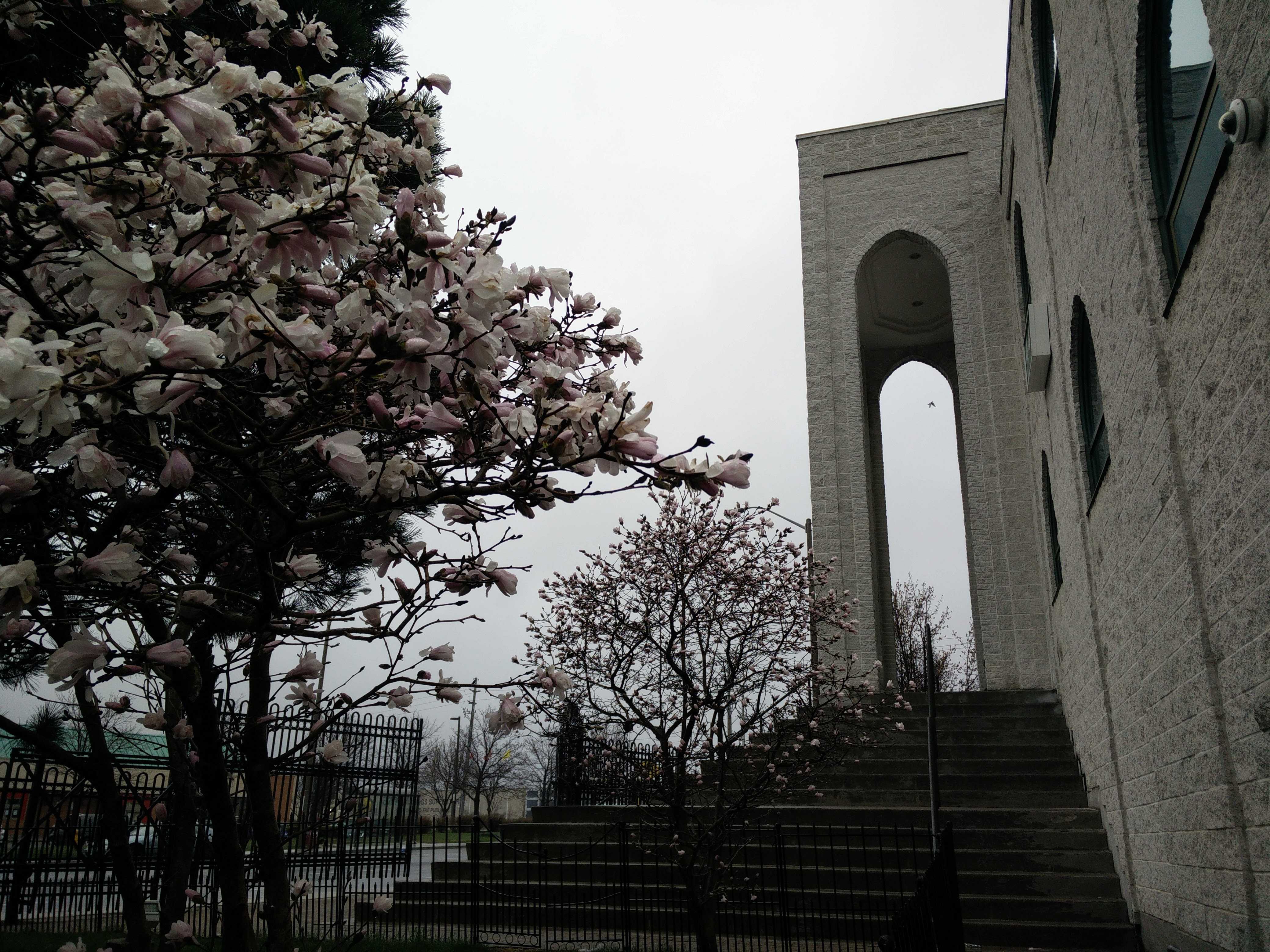 A side view of the Masjid displaying the flower blossoms planted a few years back